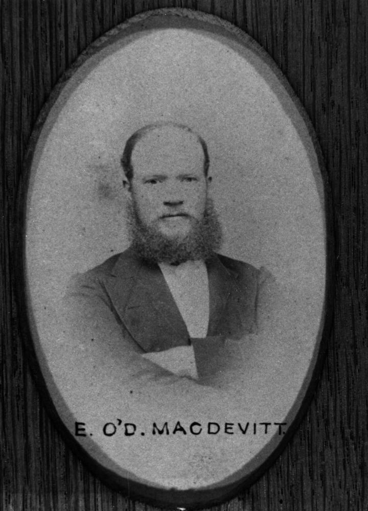 Portrait of Edward O'Donnell MacDevitt, 1874